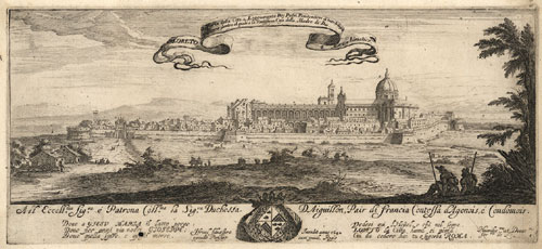 Pierpont Morgan Library